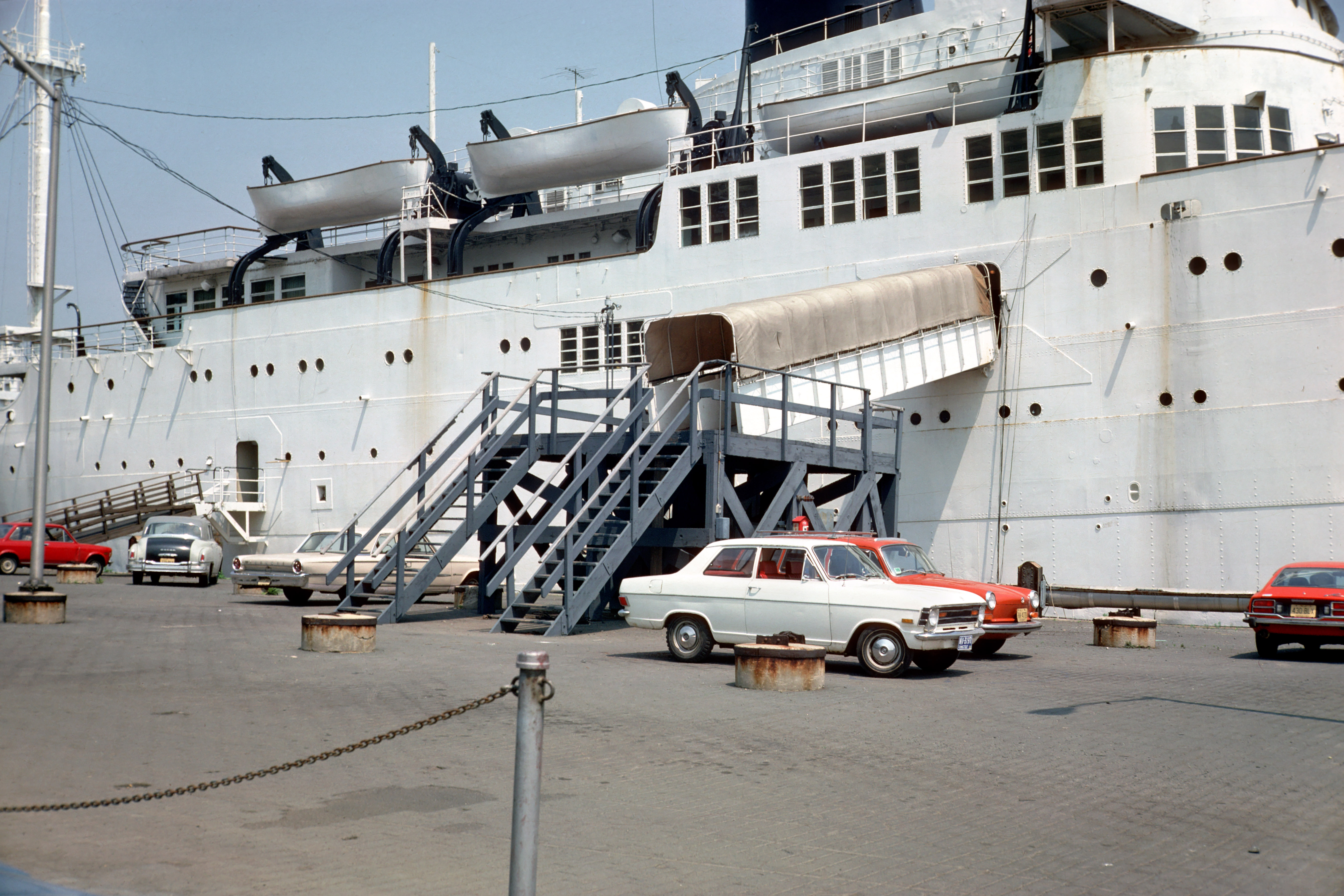 SS Stevens showing the main gangplank to "A" deck. The lower-level "B" deck gangplank is shown on the far left. SS Stevens was formerly cruise liner SS Exochorda of the New "4 Aces" fleet of American Export Lines The image was scanned from the original Kodachrome 25 (Daylight) 35mm film image. For other photos, see SS Stevens Gallery